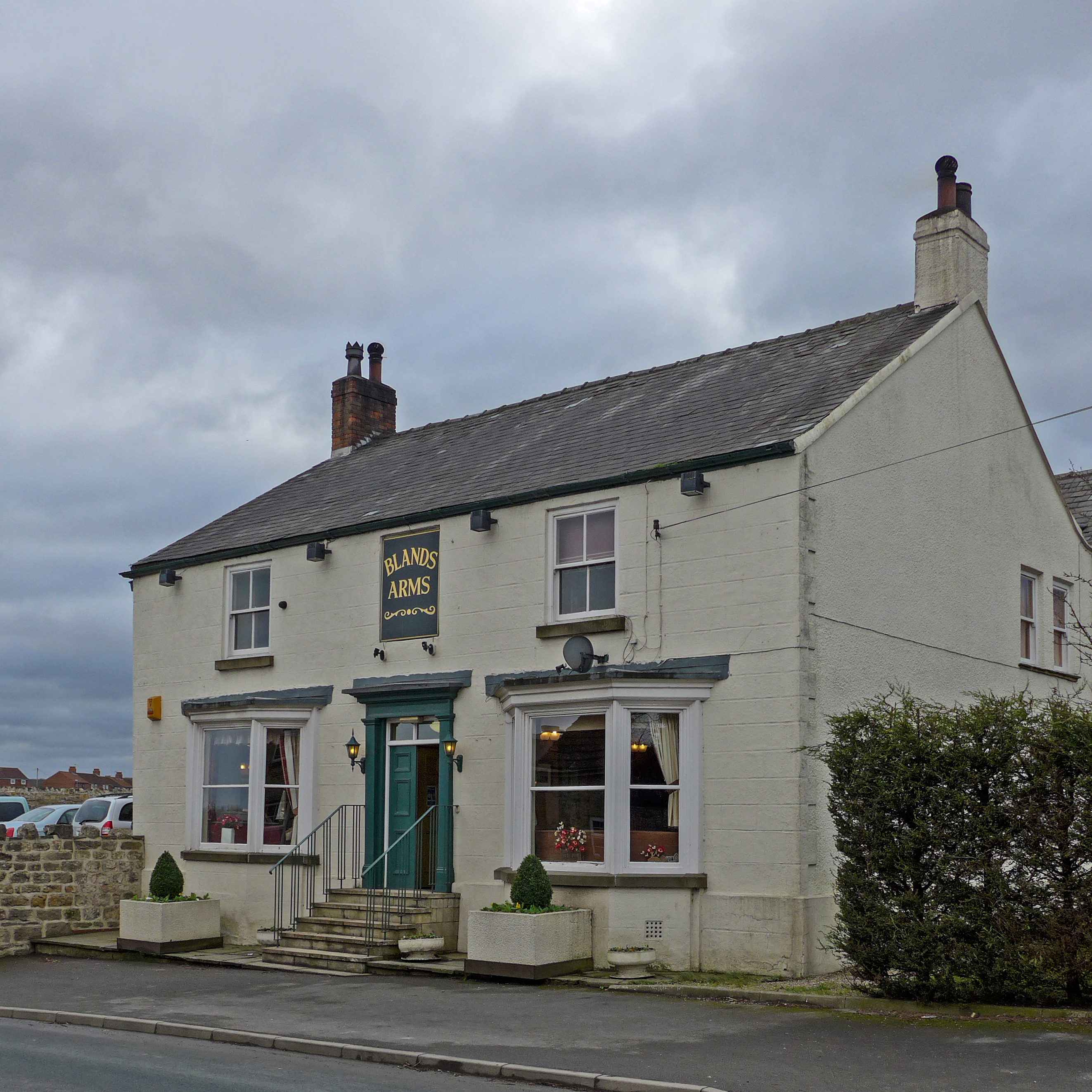 Bland's Arms (sic), Micklefield, West Yorkshire. Taken by Flickr user:Tim Green aka atoach on Saturday the 31st of January 2015.